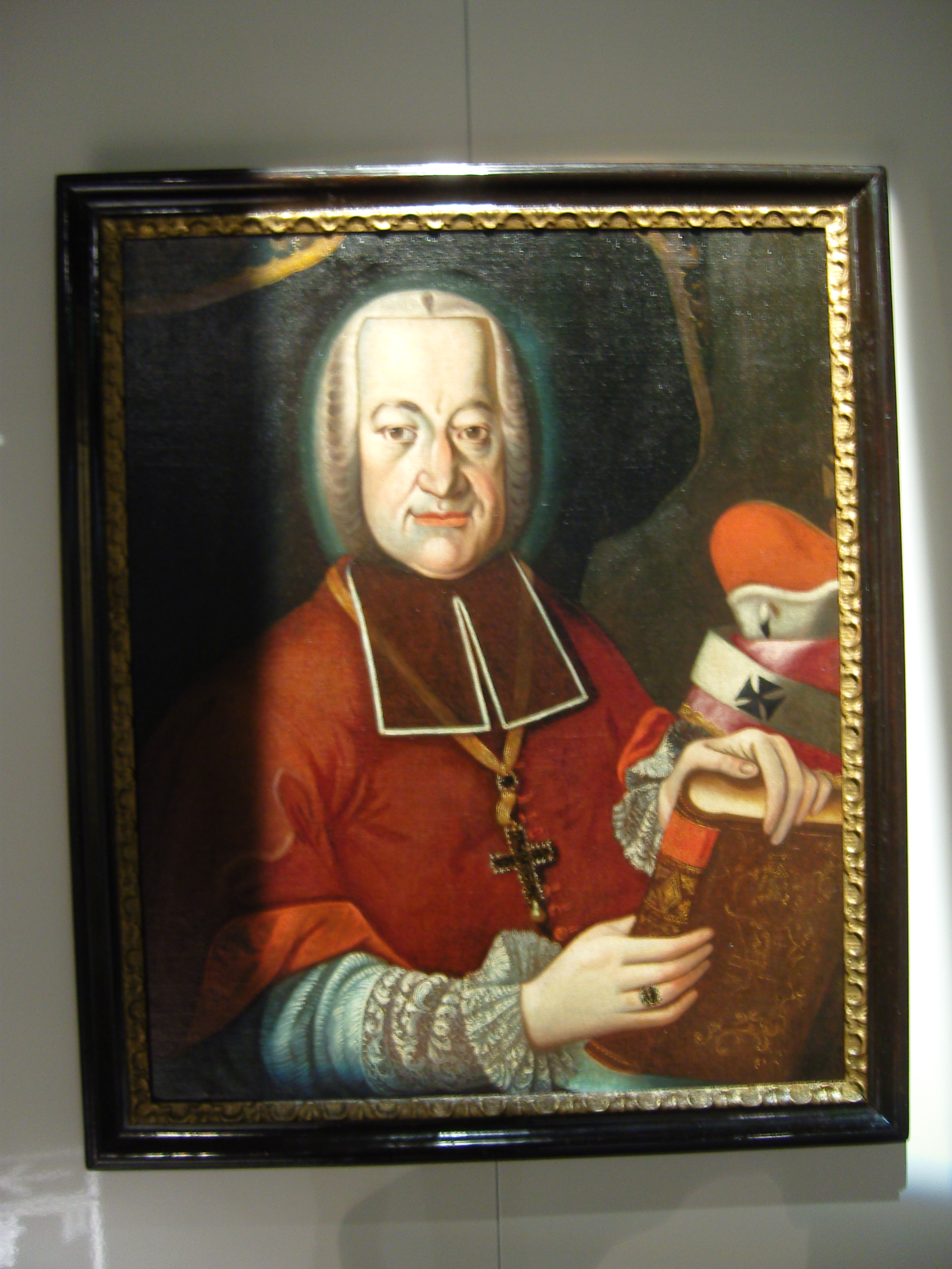 Portrait of Maximilian Friedrich von Königsegg-Rothenfels (1708-1784)